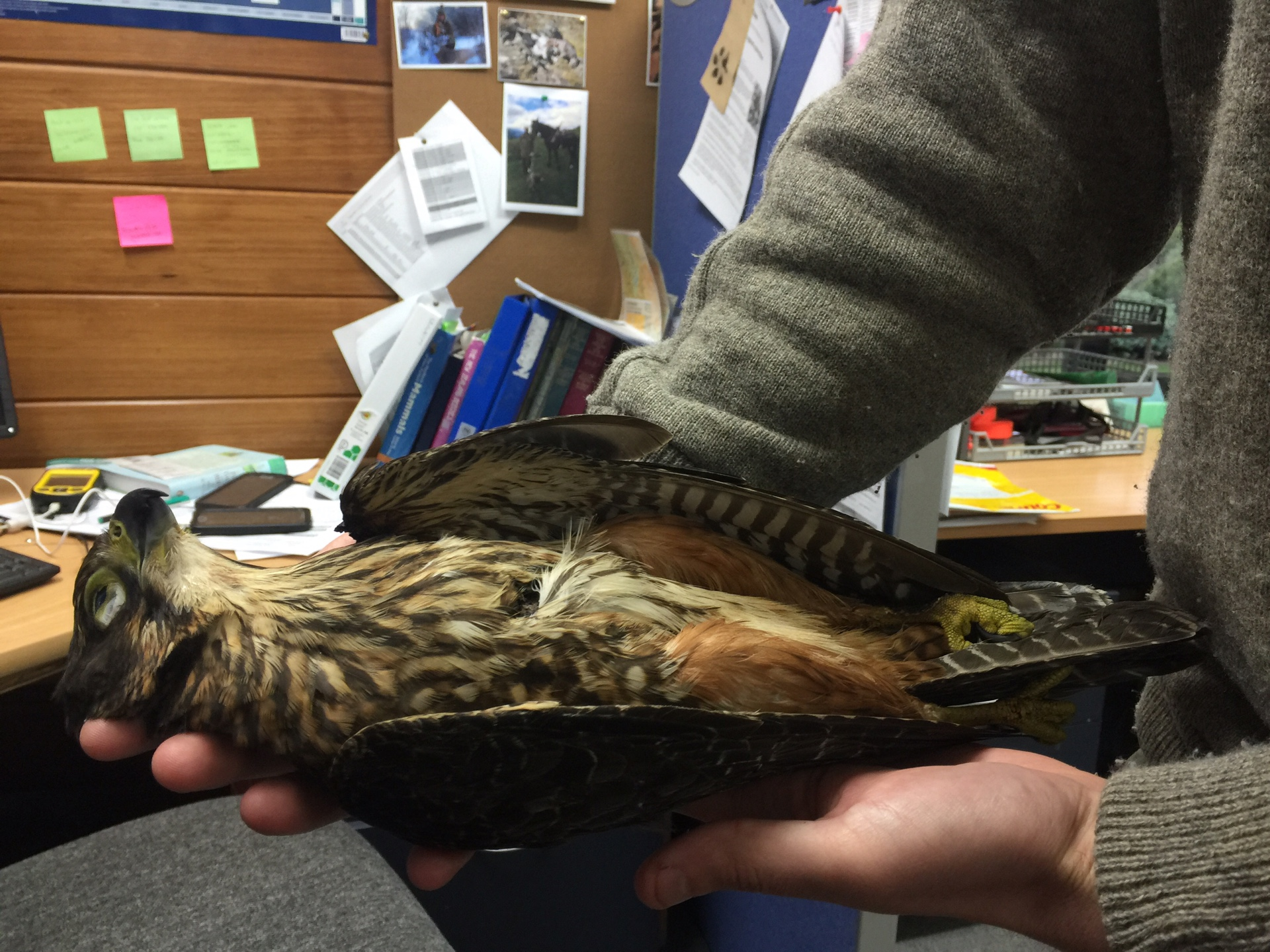 Electrocution - kārearea / New Zealand Falcon